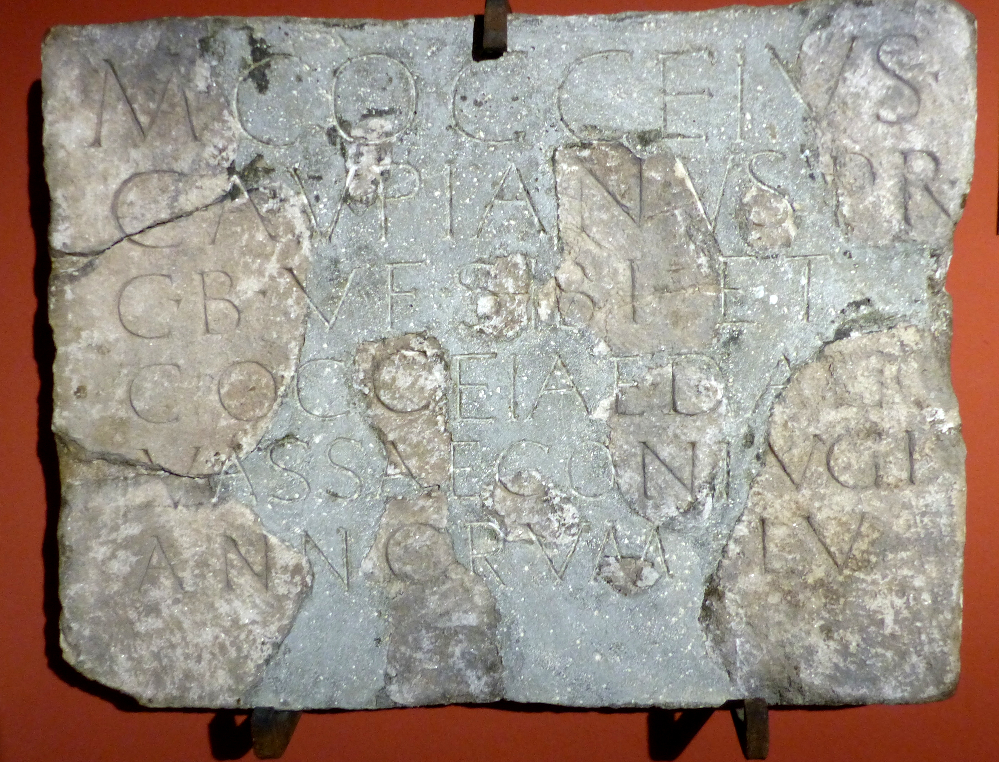 Eisenstadt ( Austria ). Burgenland Country Museum: Grave inscription ( 1st century AD ) for M. Cocceius Caupianus from the ancient Roman villa of Bruckneudorf.